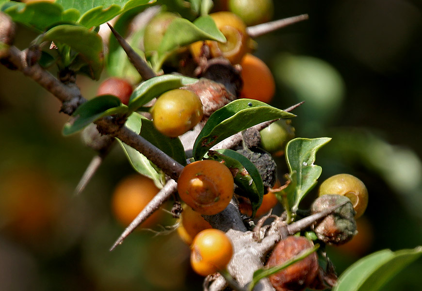 Canthium coromandelicum (syn. C. parviflorum, Plectronia parviflora, Paederia valli-kara, Webera tetrandra)- Coromandel Canthium • Marathi: किरमा Kirma, Kadbar • Tamil: Nallakkarai, Kudiram, Sengarai • Malayalam: Kantankara, Niruri, Serukara • Telugu: Sinnabalusu, Balusu • Kannada: Karemullu, Ollepode • Oriya: Tutidi • Konkani: Kayili • Sanskrit: Nagabala, Gangeruki - at Deer Park in Shamirpet, Rangareddy district, Andhra Pradesh, India.